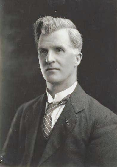 A 1920s portrait of James Scullin, MP for Yarra